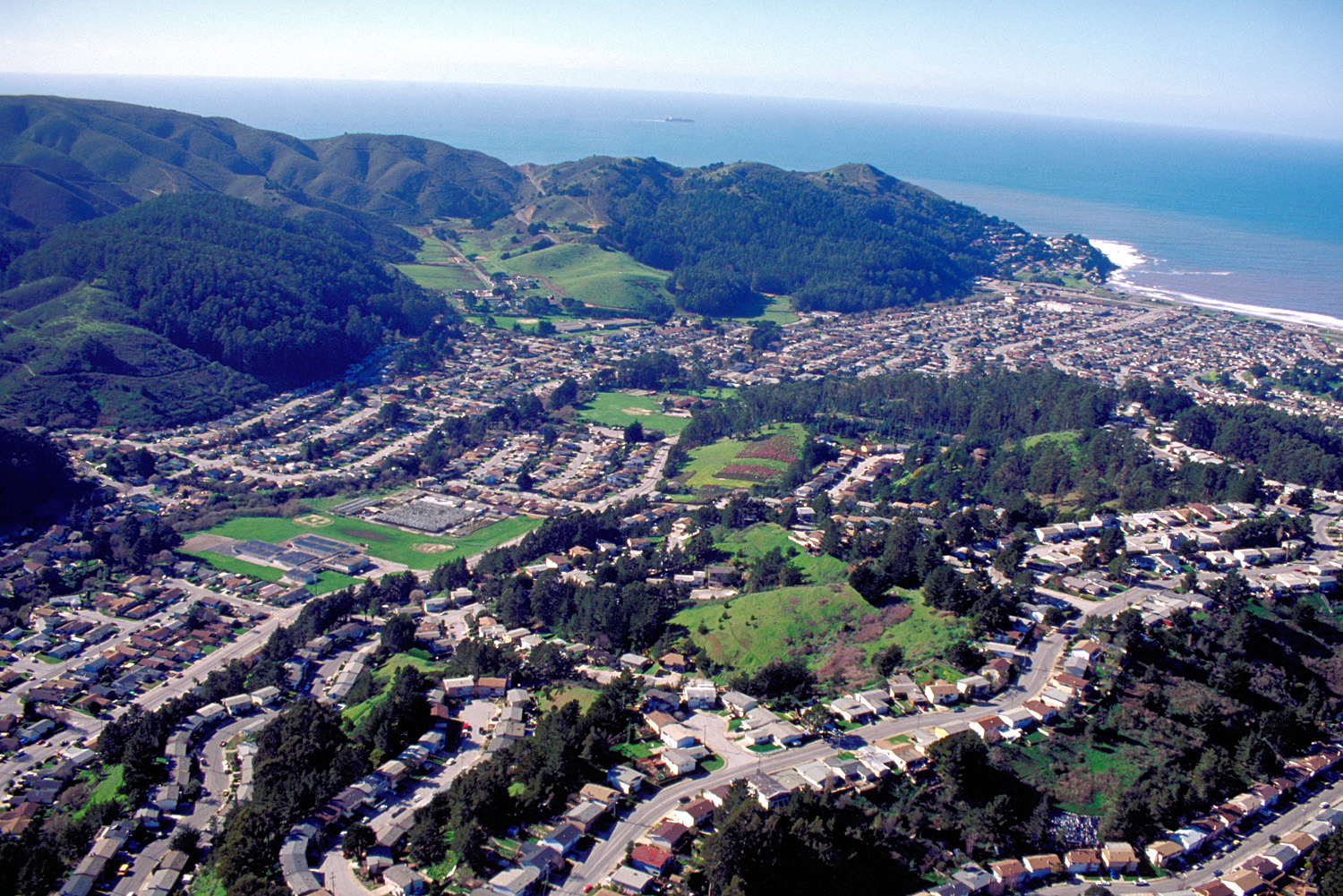 Aerial view of the Linda Mar and Pedro Valley areas of Pacifica, California, USA. The Shelter Cove area is visible at top right. View is to the west out over the Pacific Ocean. Coordinates: 37°35′29.47″N 122°29′49.66″W / 37.5915194°N 122.4971278°W